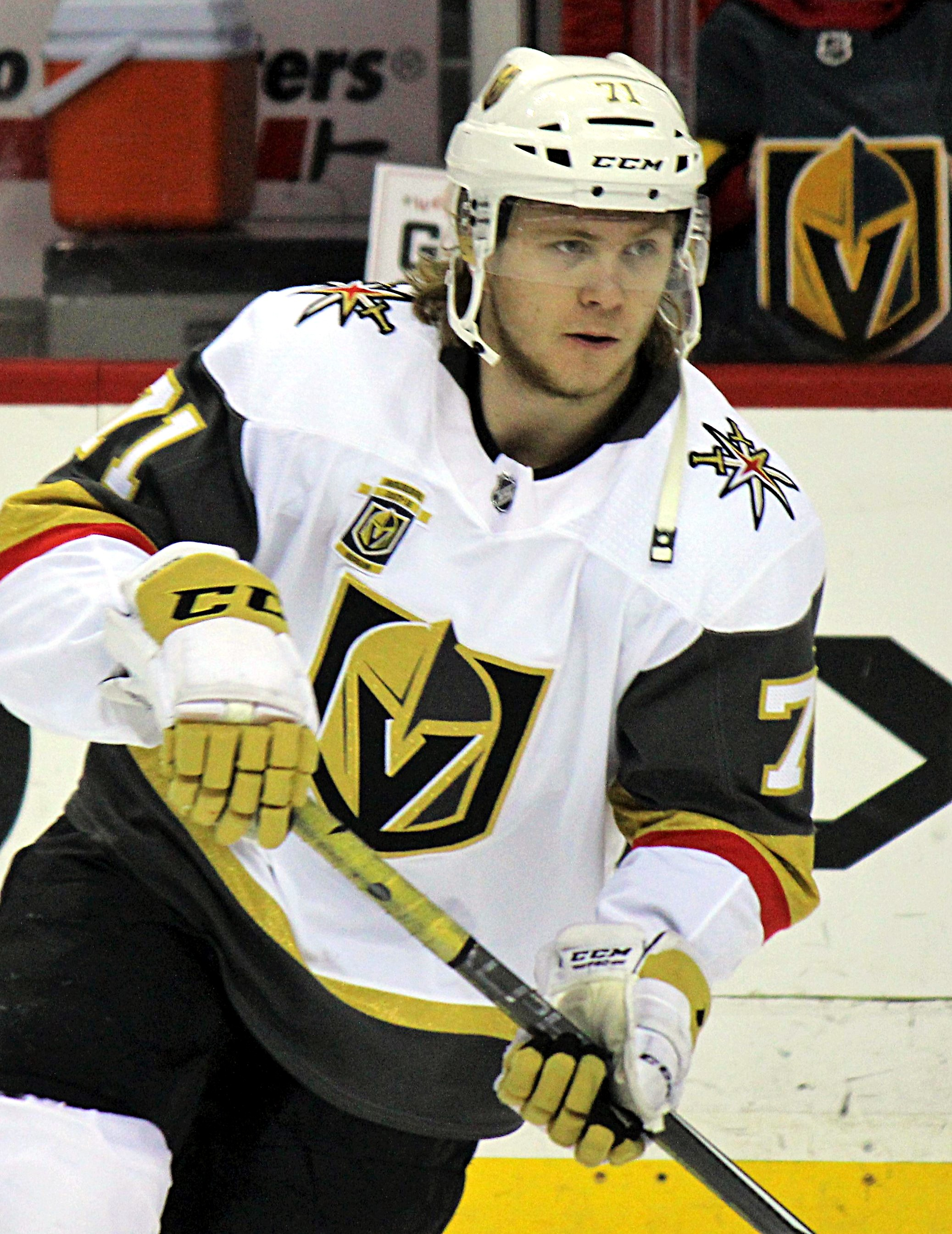 Vegas Golden Knights forward William Karlsson during a game against the Washington Capitals, February 4, 2018, at Capital One Arena in Washington, D.C.